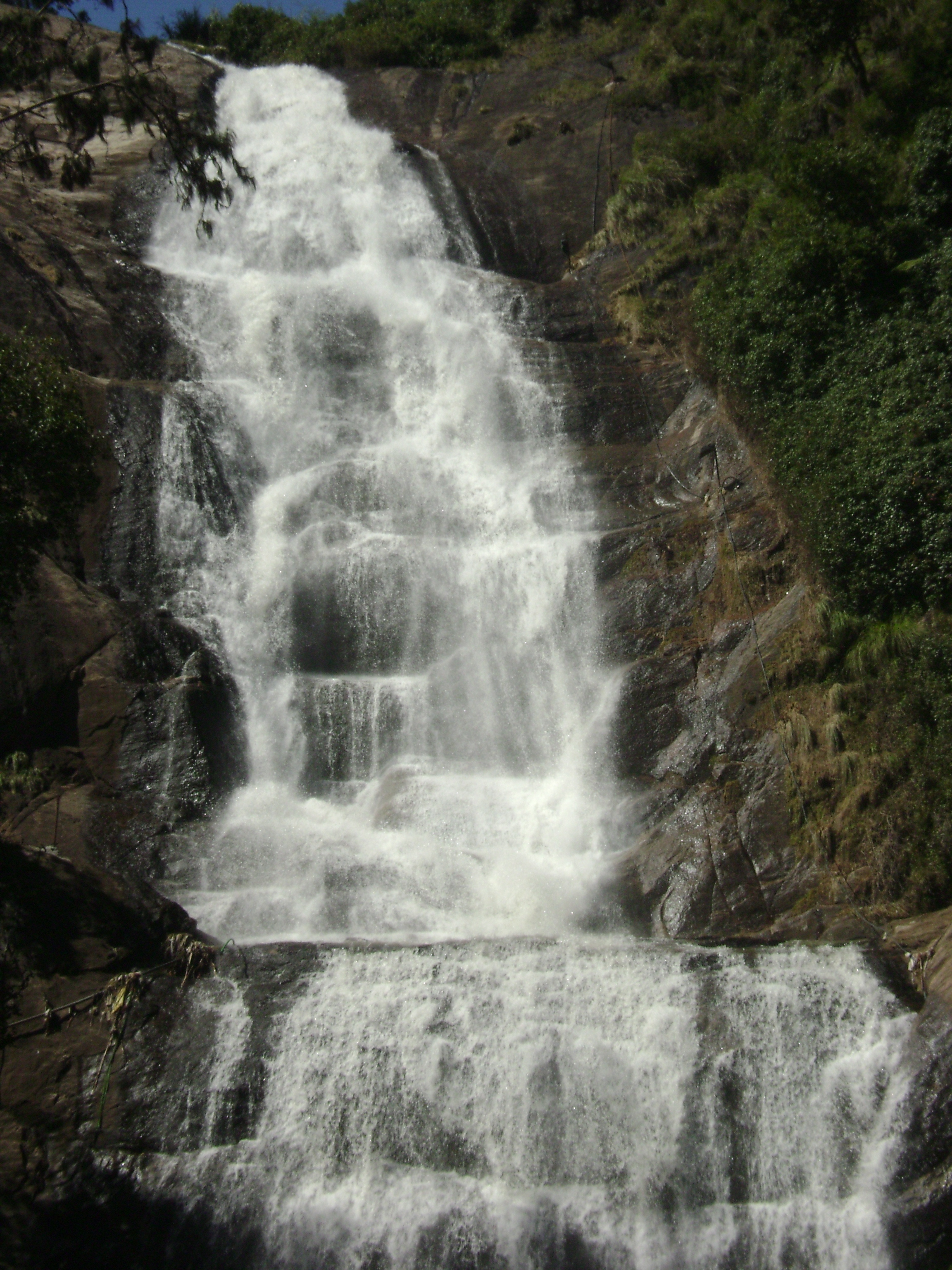 Silver Cascade Waterfall 1/4 flow, 8 km before Kodaikanal on Ghat Road